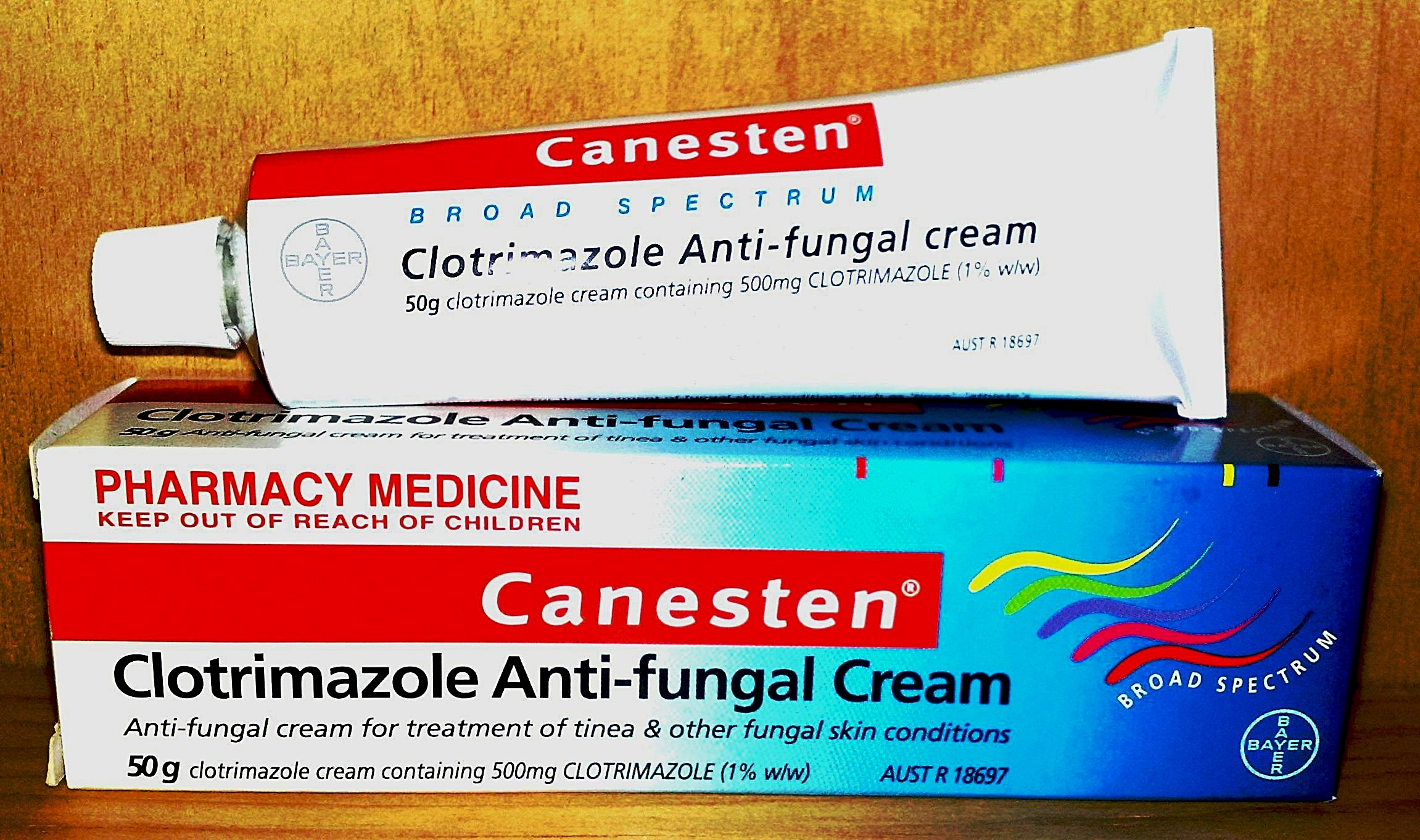 Canesten